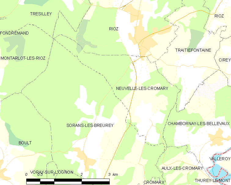 Map of French municipality